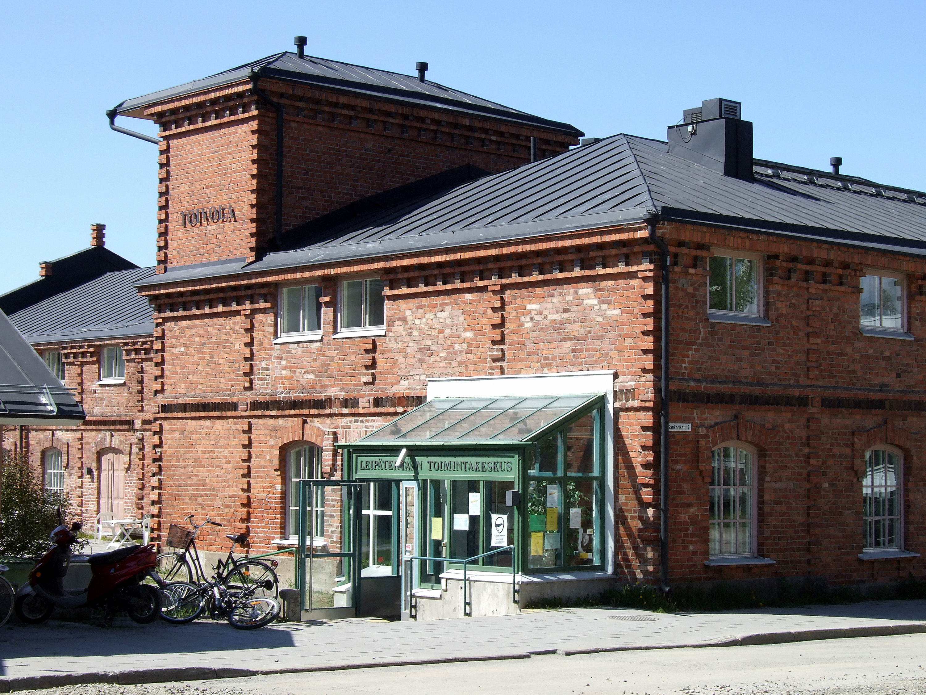 Leipätehdas cultural centre in Kemi. The building was built as a flour storehouse in 1897 and it was drawn by architect W. A. Tötterström